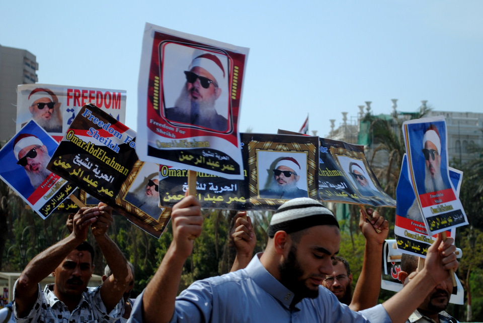 Small Demo in support of Sheikh Omar Abdel Rahman